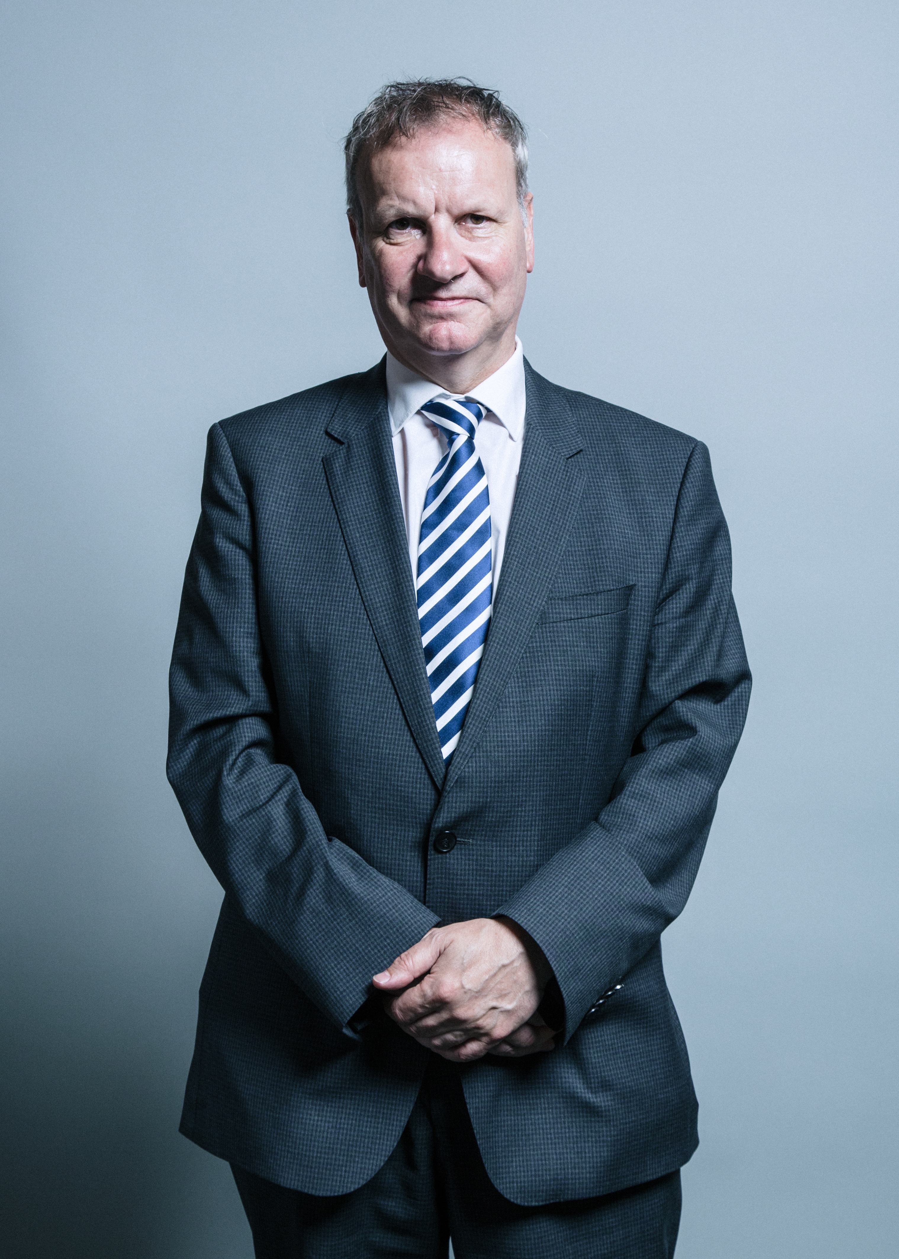 Official portrait of Pete Wishart